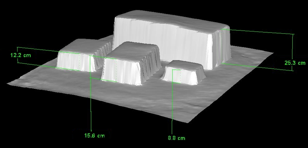 Range Image with measurement results of a TOF-camera